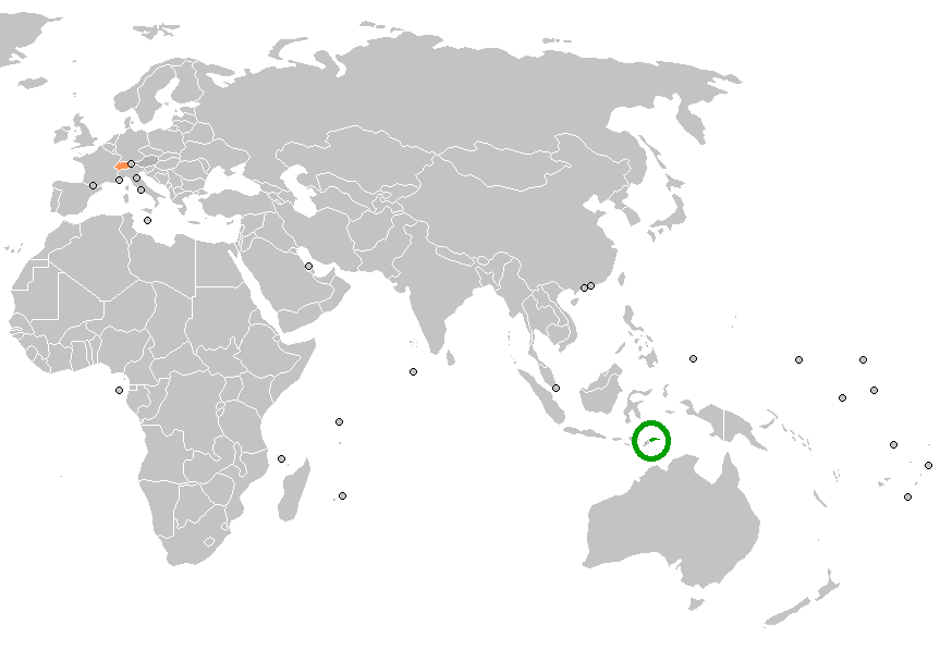 East Timor Switzerland locator map